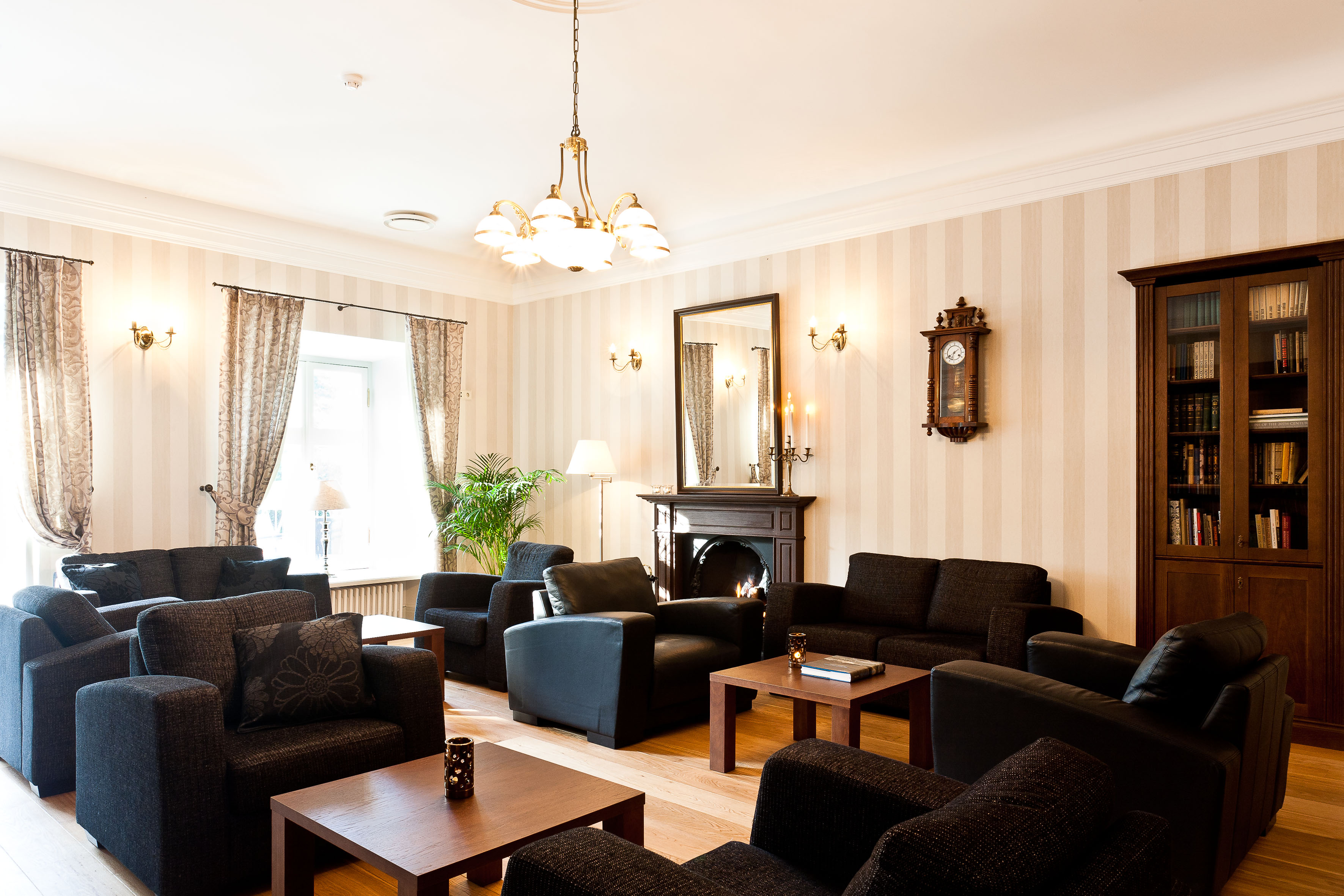 Drawing Room & Library, Vihula Manor